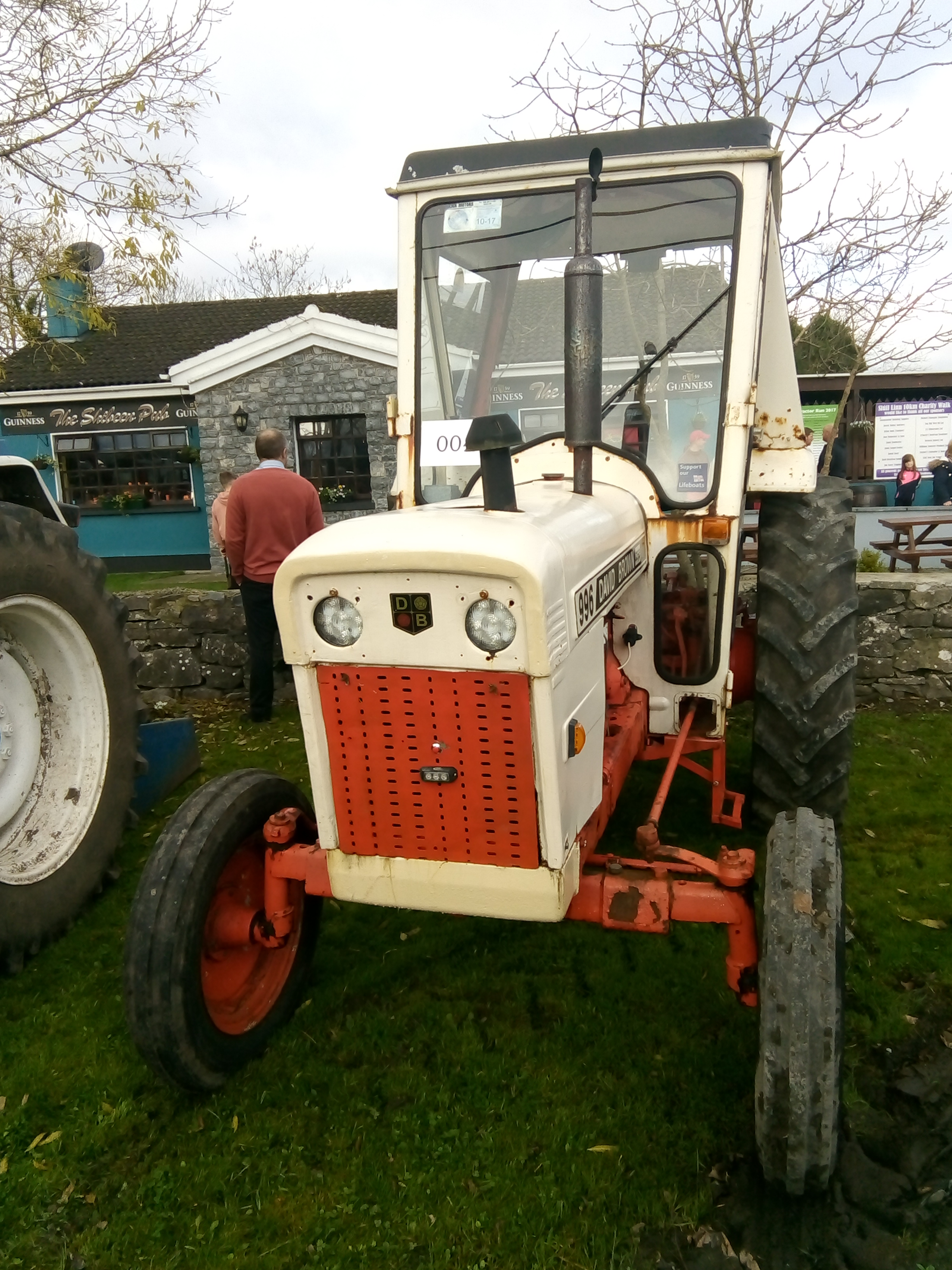 Antique tractor, Ireland